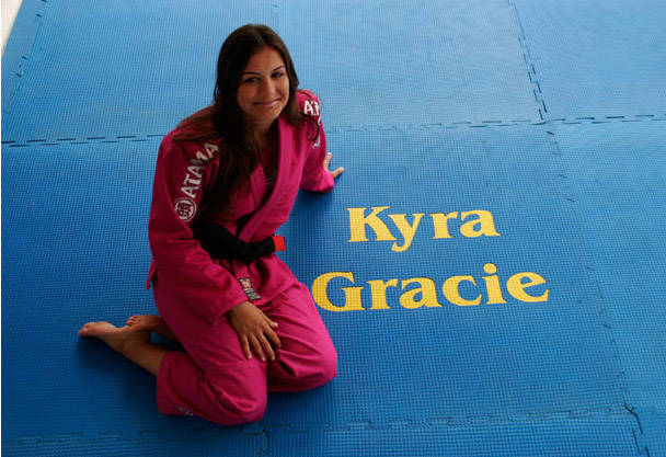 brazilian Jiu-Jitsu fighter Kyra Gracie